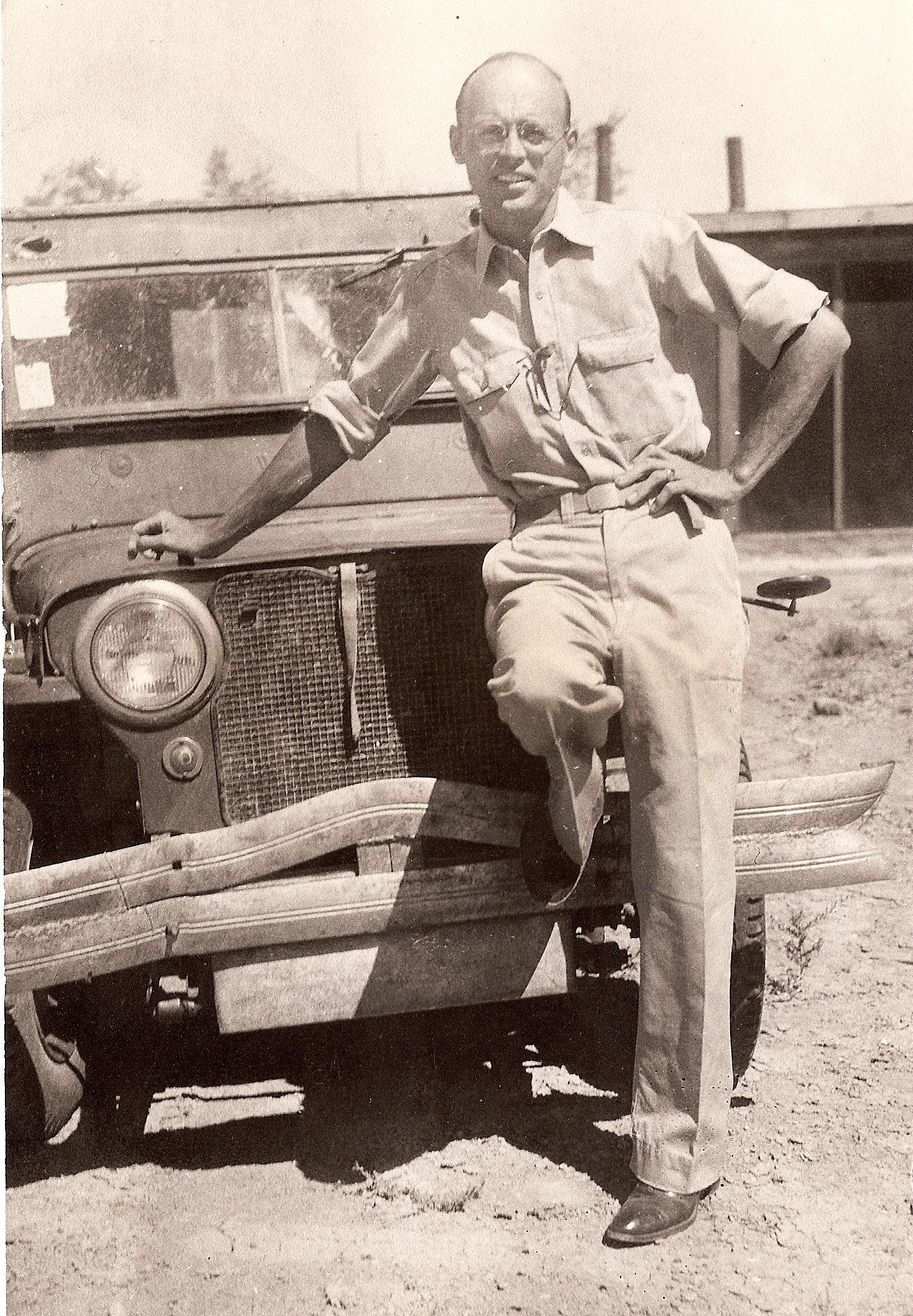 Charles A. Steen the day after his discovery